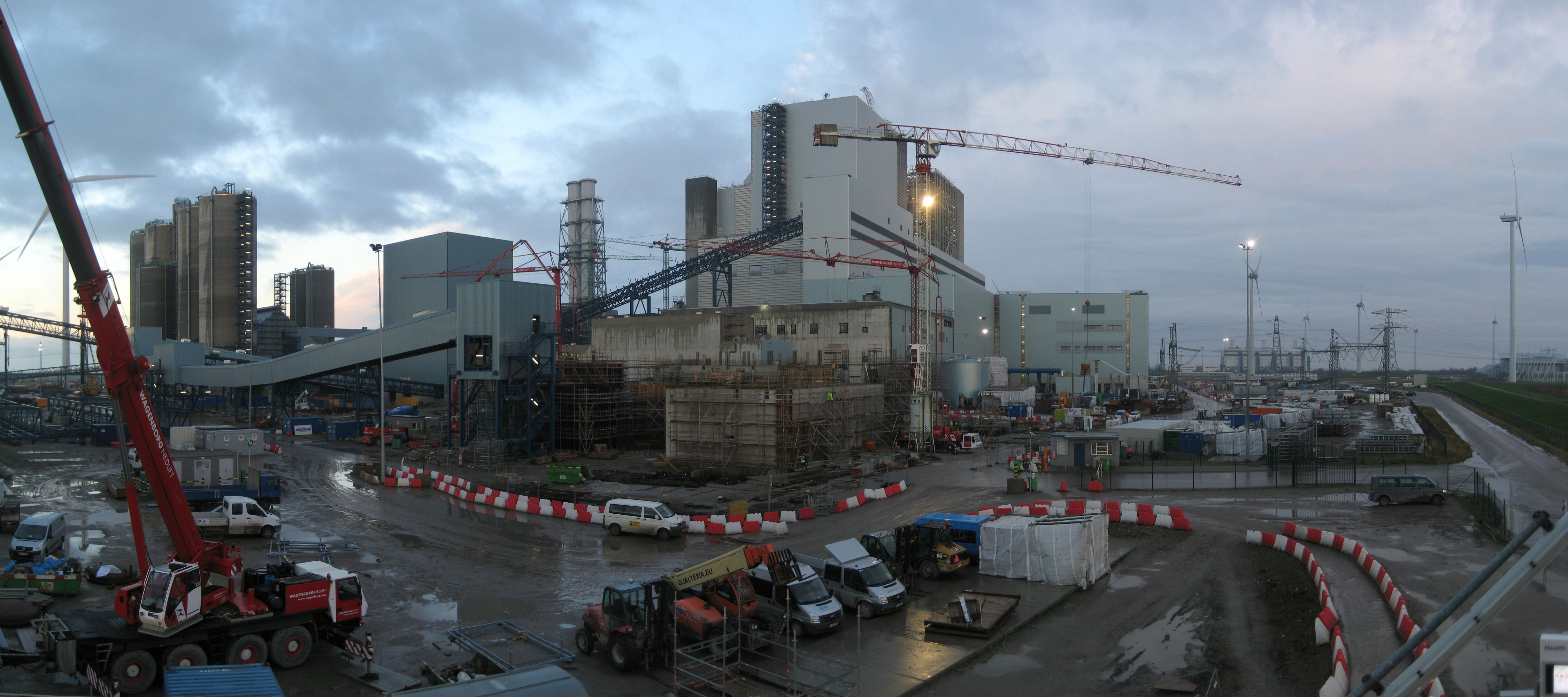 Construction site of the RWE coal power station near the Eemshaven, a port in the Dutch province of Groningen.